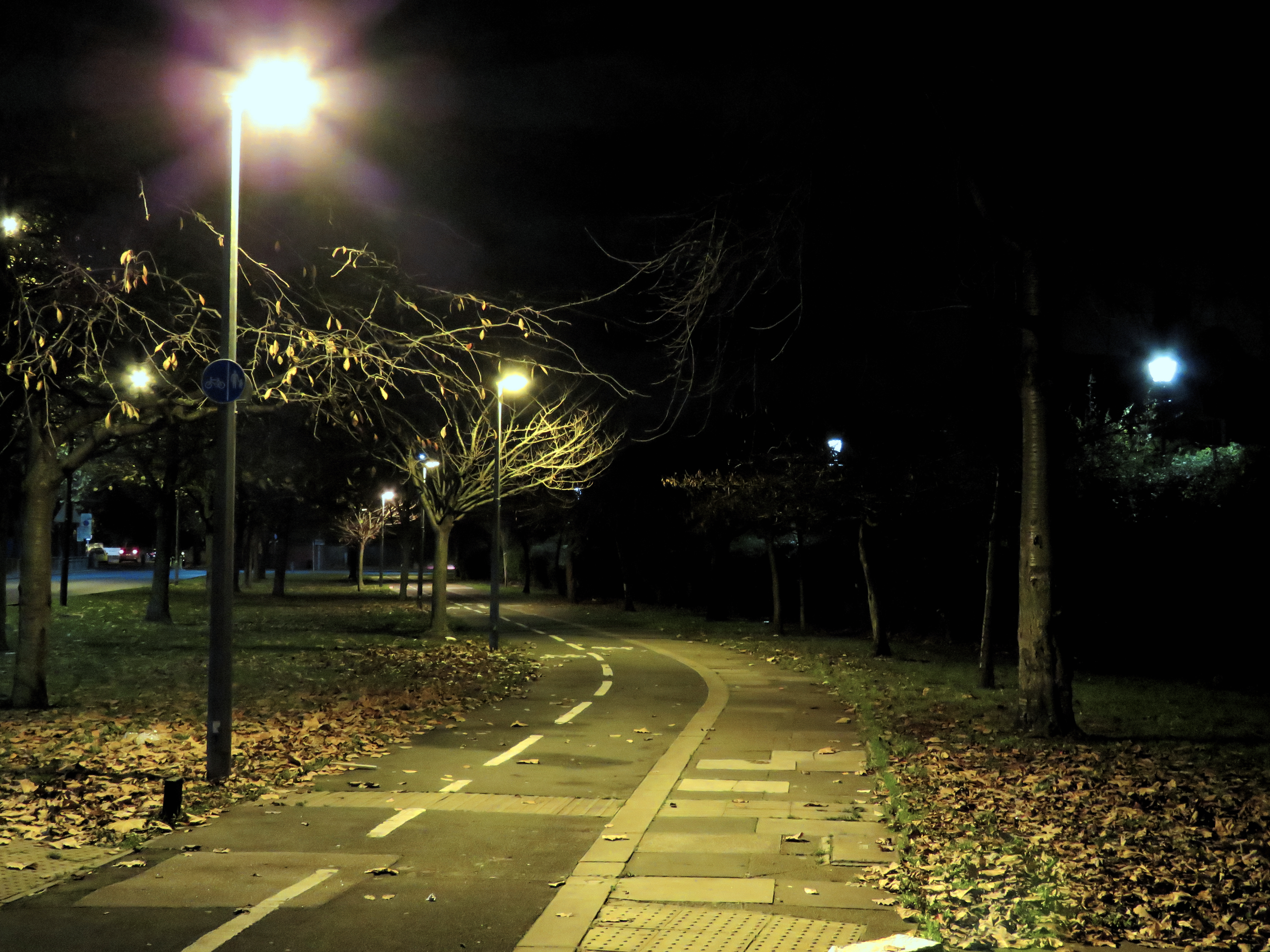 A cycle path and footpath on The Roundway in Tottenham, in the Borough of Haringey, London N17, England.Camera: Canon PowerShot SX60 HSSoftware: File lens-corrected, optimized, perhaps cropped, with DxO OpticsPro 11 Elite, and likely further optimized with Adobe Photoshop CS2.